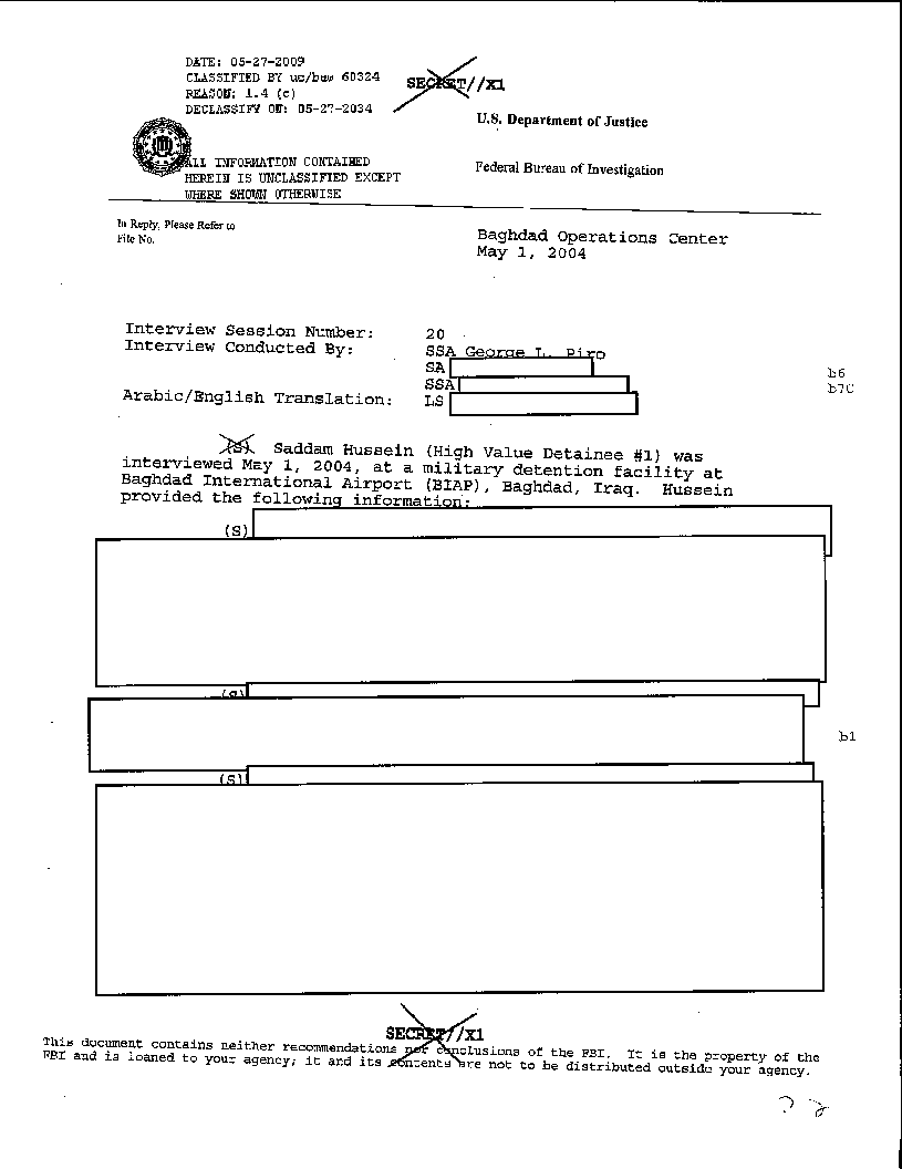 Image of the first page of the completely redacted May 1, 2004 FBI report on the Interrogation of Saddam Hussein.